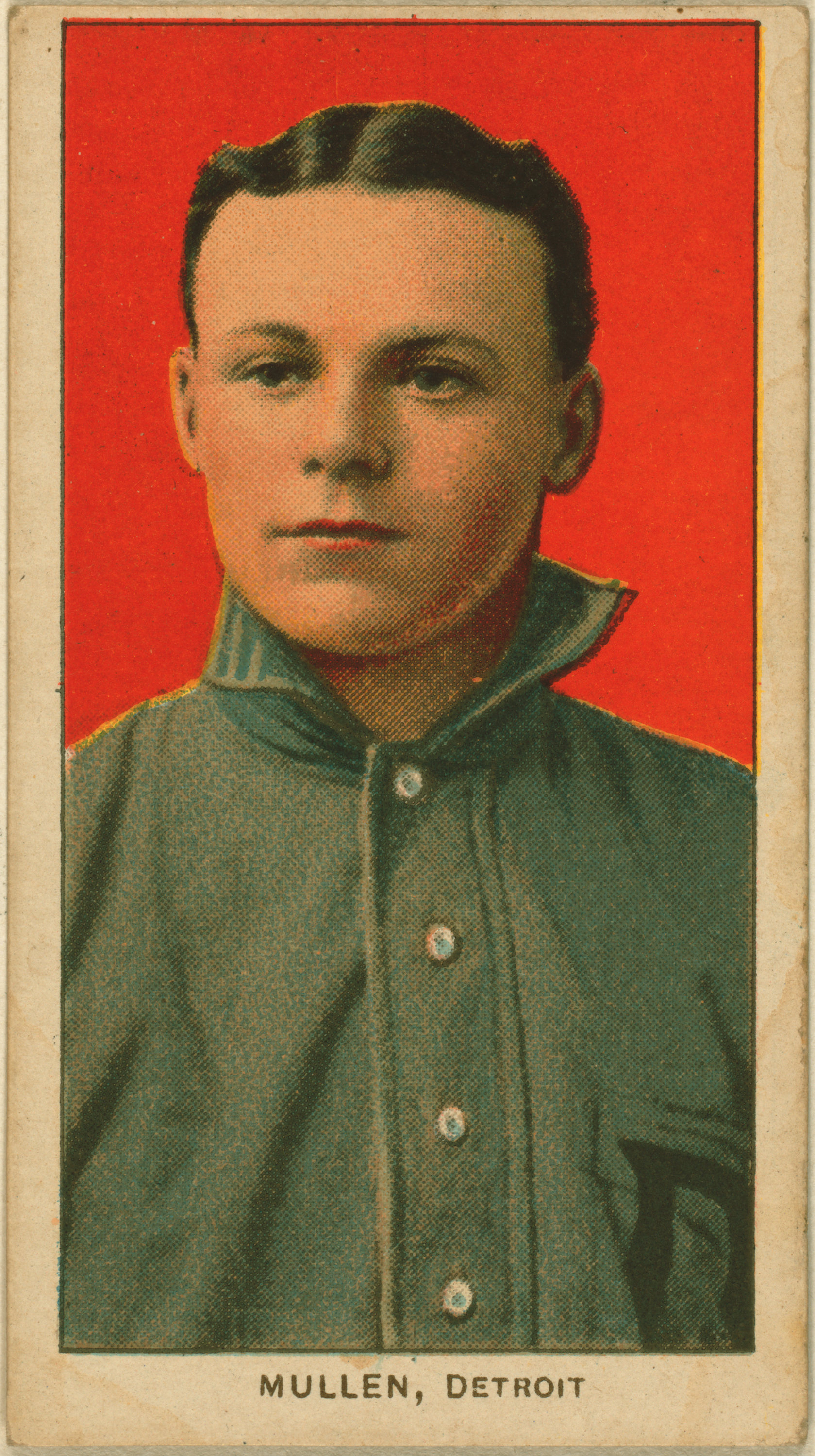 A cigarette card of Major League Baseball player George Mullin of the Detroit Tigers.